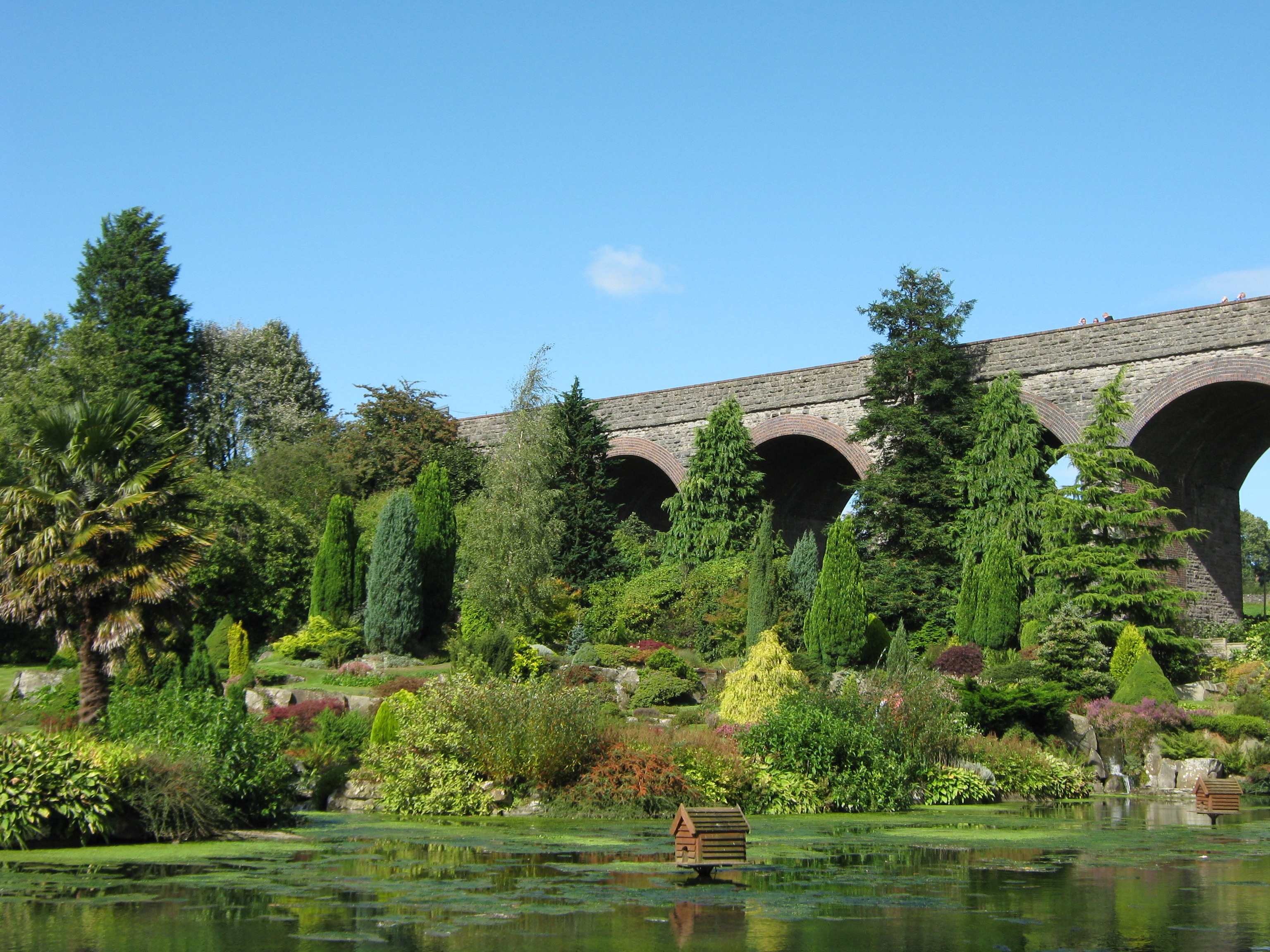 Kilver Court Gardens, Shepton Mallet, Somerset, UK